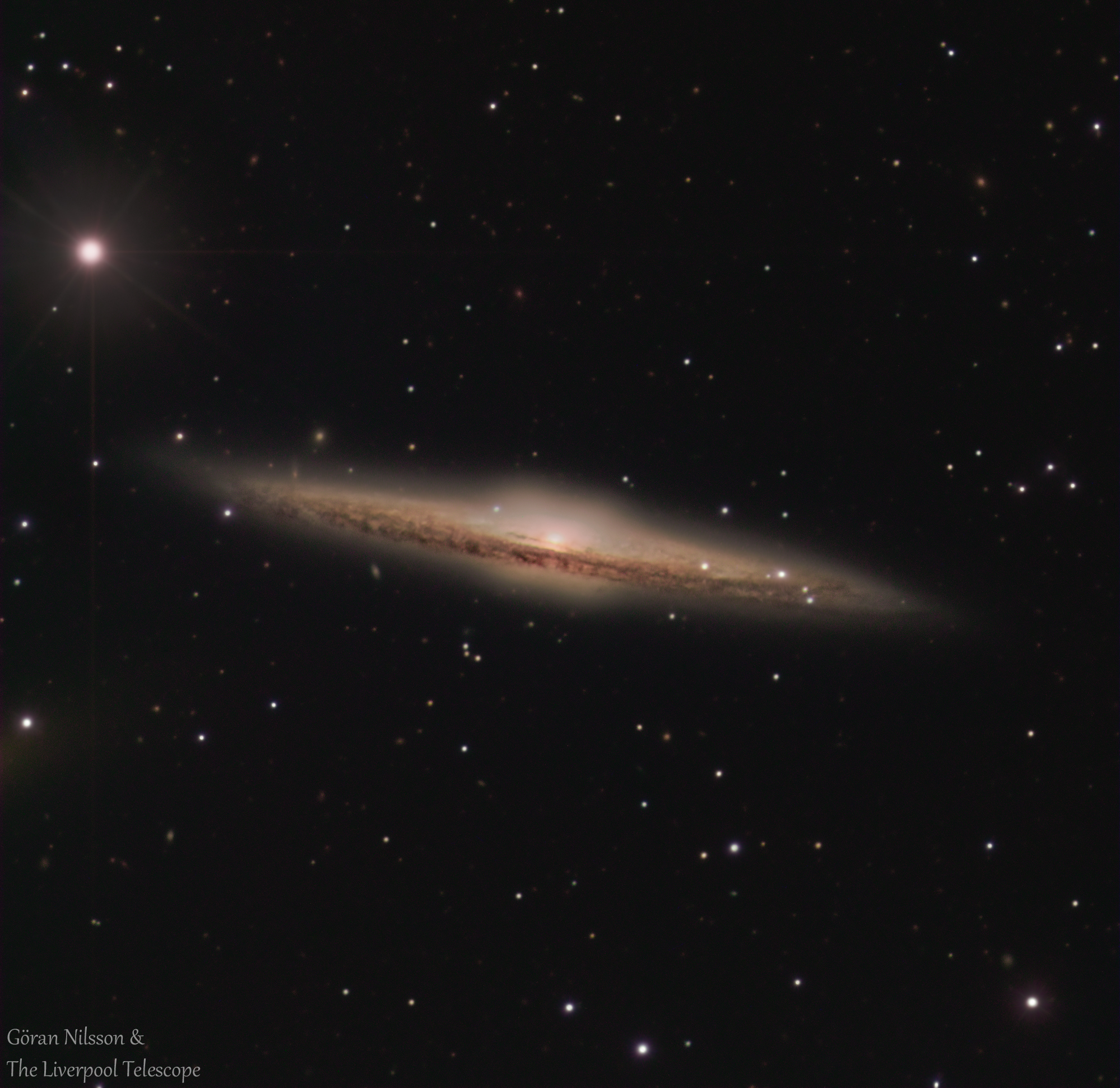 RGB image of the galaxy NGC 5746. Data from the Liverpool Telescope, a 2 m RC telescope on La Palma, processed by Göran Nilsson. 31 x 90s exposures totaling 0.8 hours